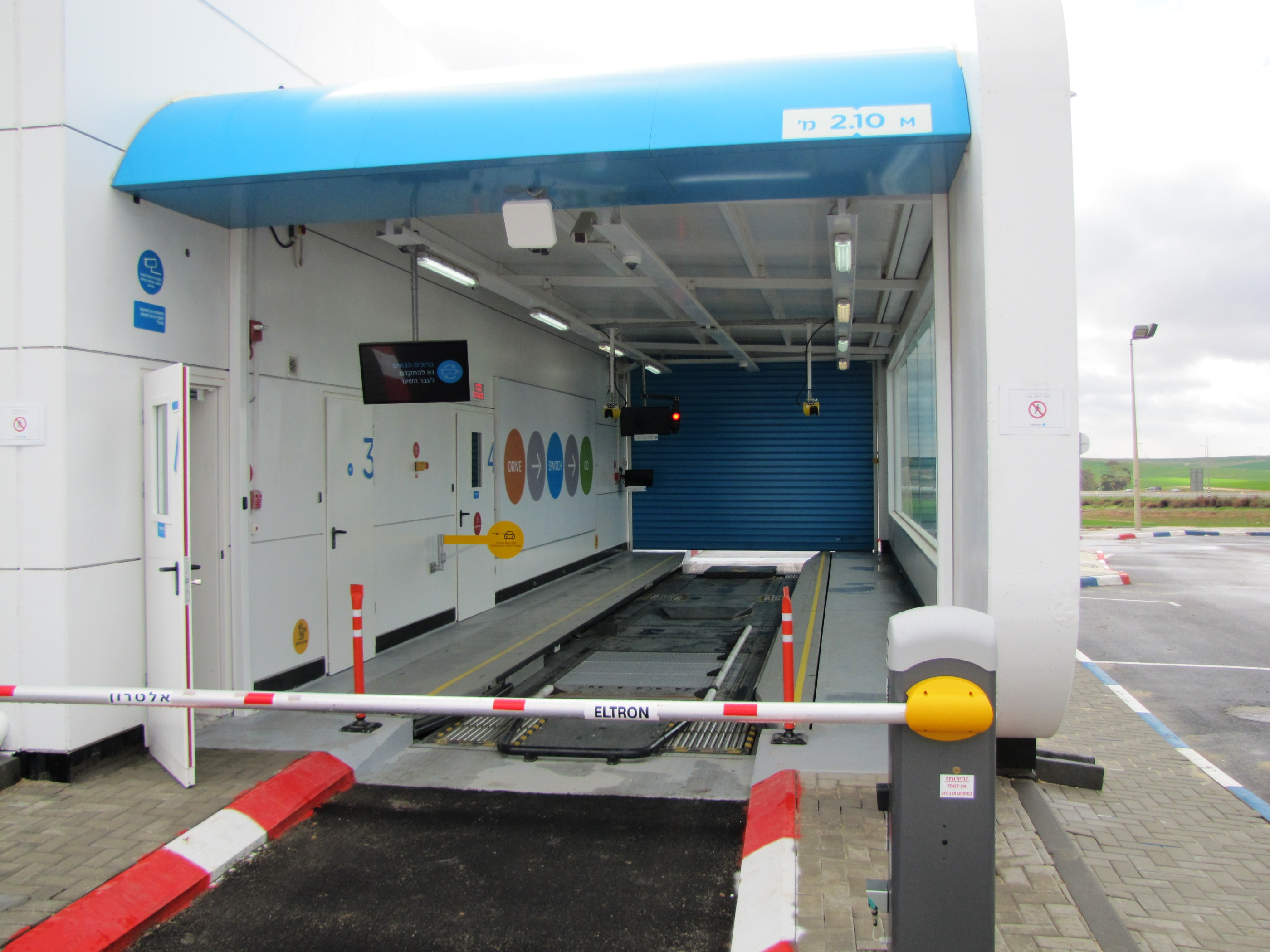 BetterPlace's battery switchimg Station in Dvira Junction, South of Israel